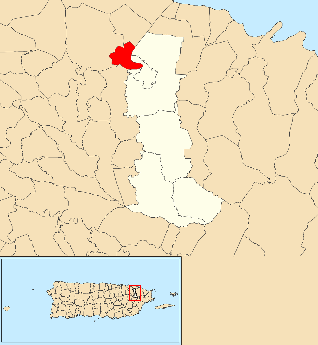 Torrecilla Alta, Canóvanas, Puerto Rico locator map